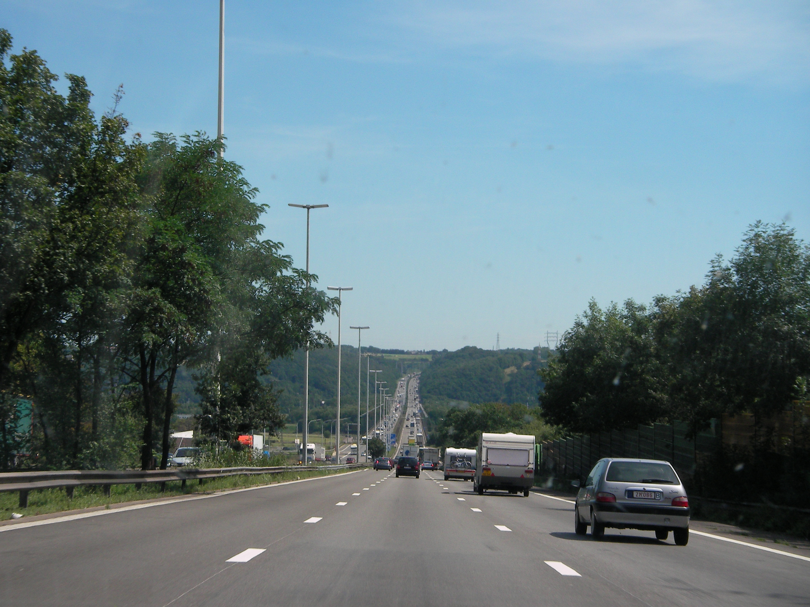 A3 in Belgium near Liège.